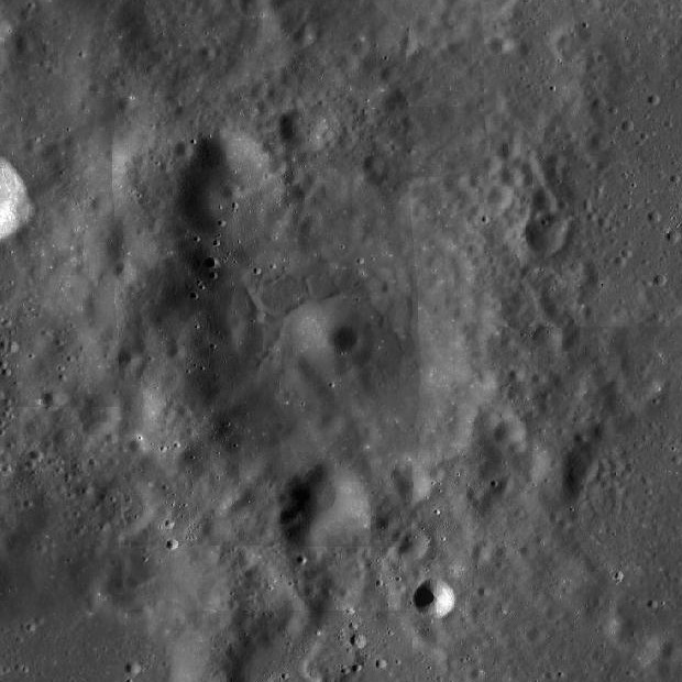 Airy crater, on the moon. Lunar Reconnaissance Orbiter Wide Angle Camera (WAC) mosaic.